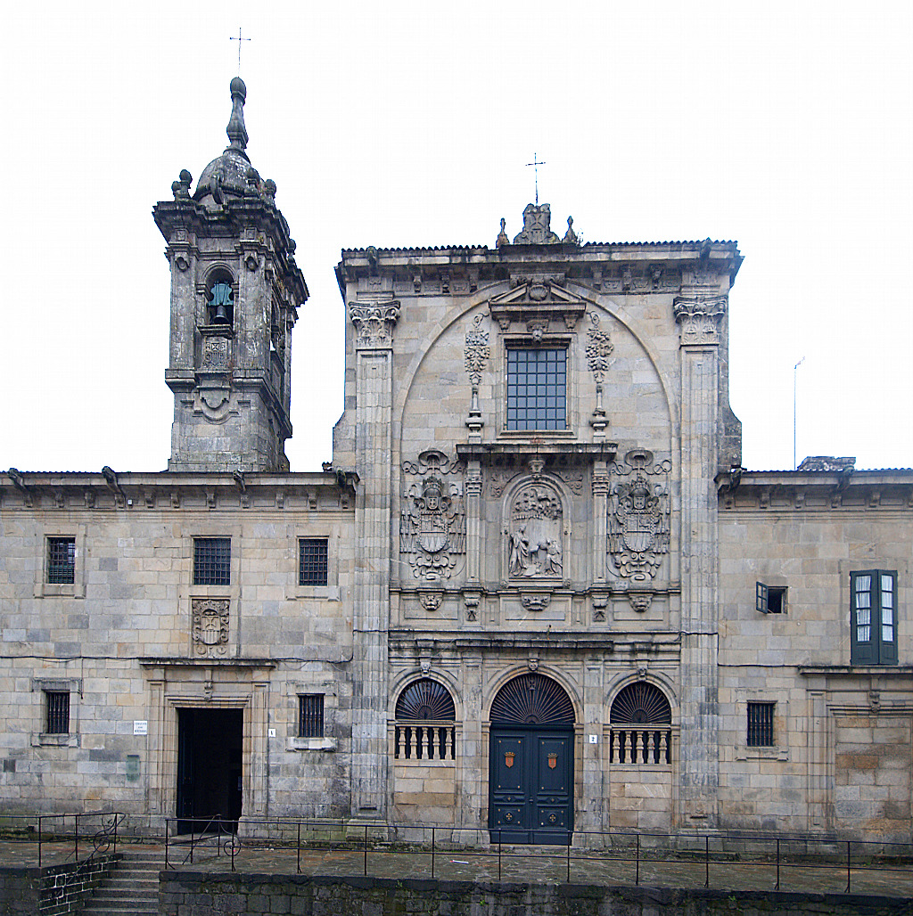 Convent and church of Madres Mercedarias, Santiago de Compostela